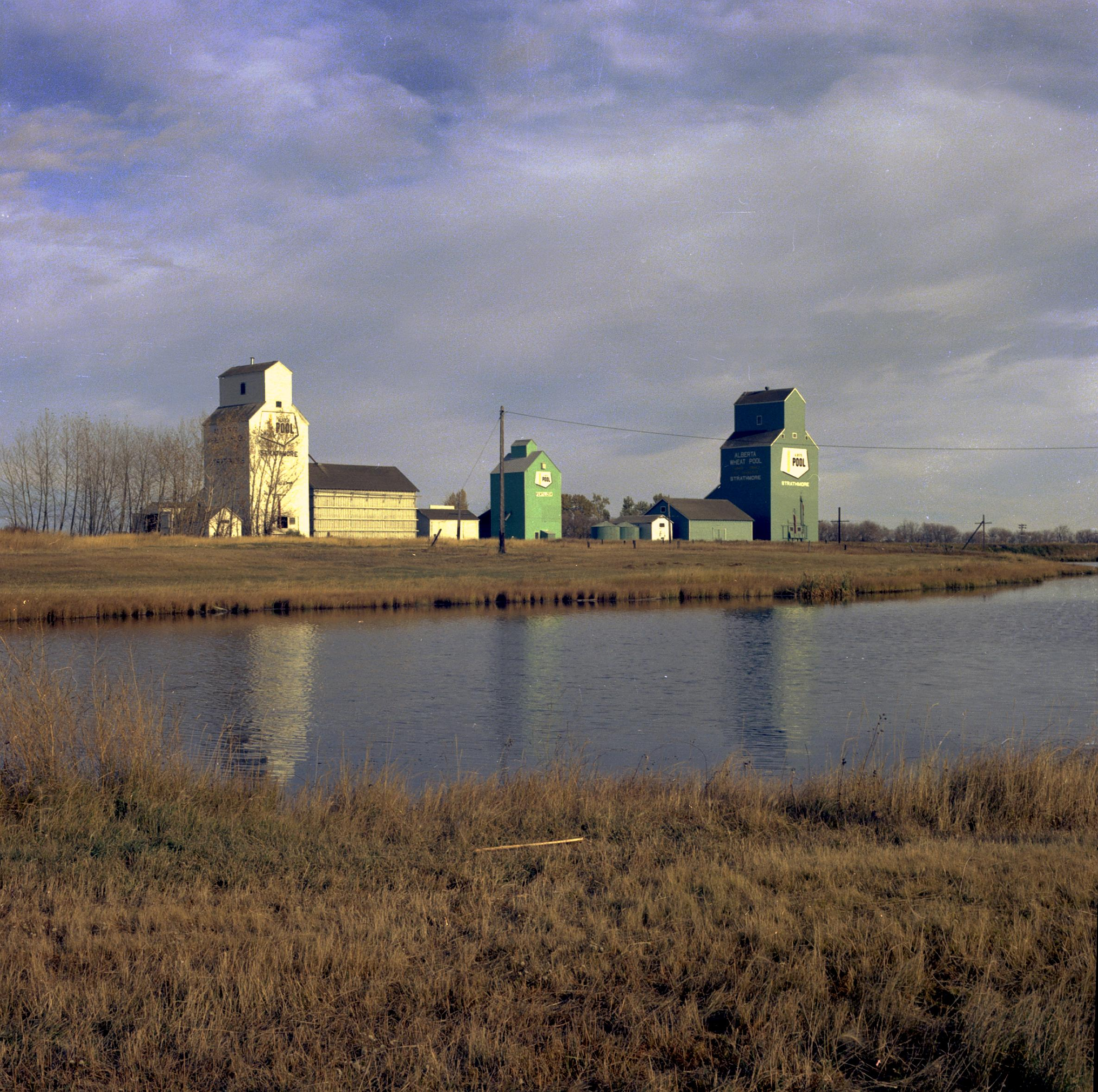 Alberta Wheat Pool grain elevators in Strathmore, Alberta.